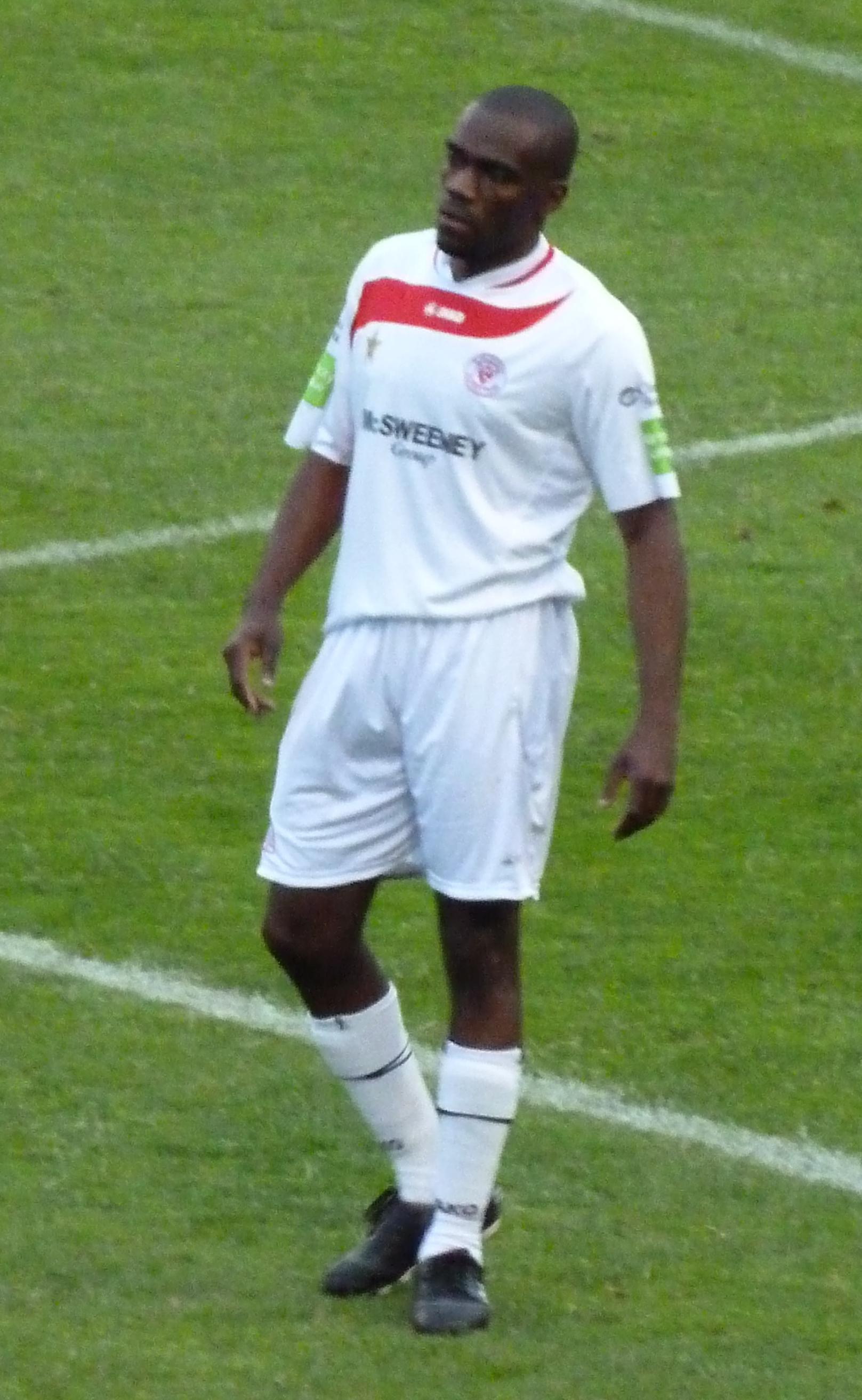 Joseph Ndo